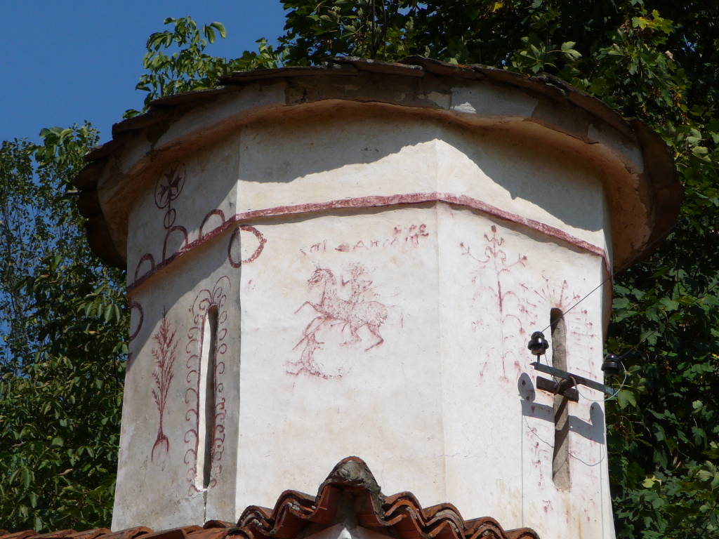 Detail of Church of the Holy Trinity in Gornja Kamenica, Serbia